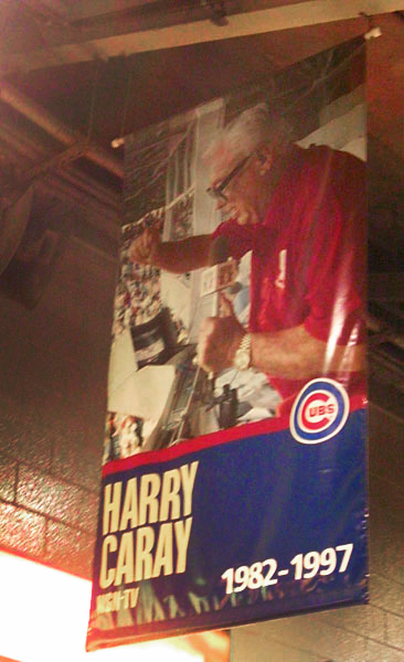 Wrigley Field, Chicago, 15 juin 2005.